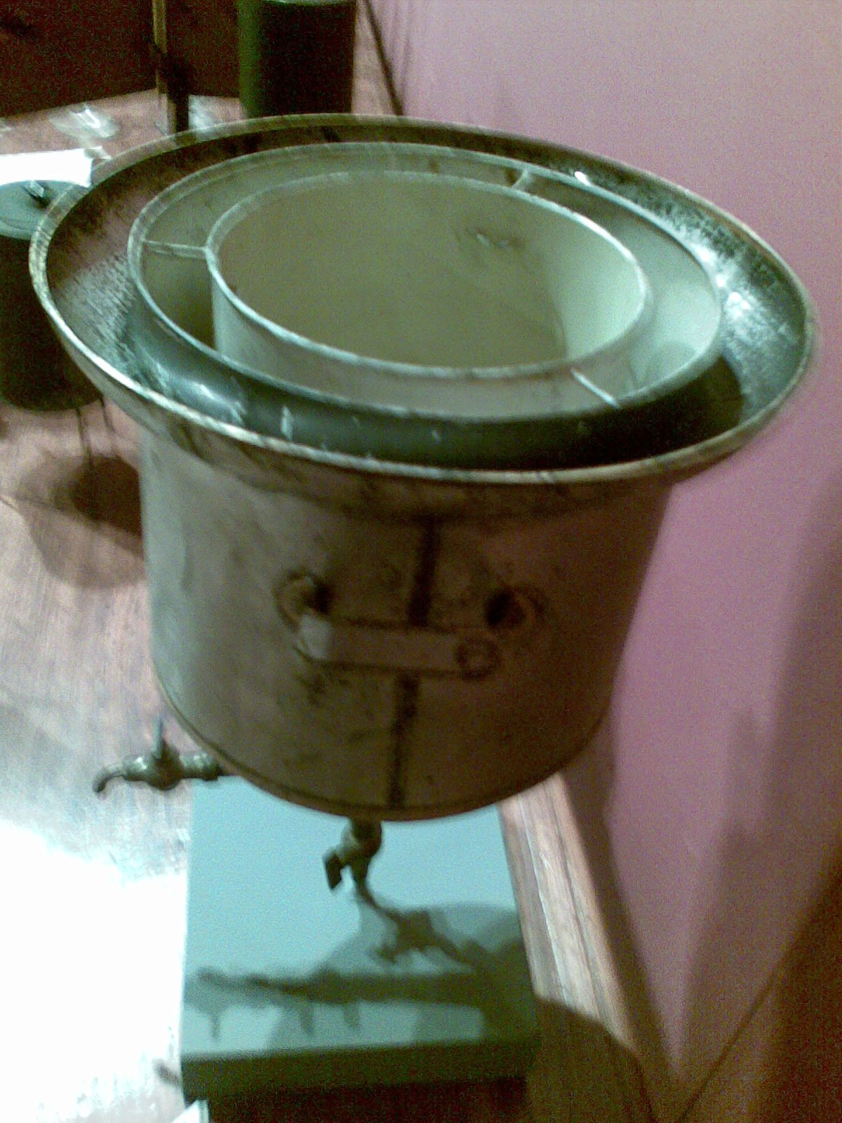 A Lavoisier's Calorimeter from the collection of historical instruments of the Institute of Secondary Education Jorge Manrique in Palencia, Spain. 19 thcentury.